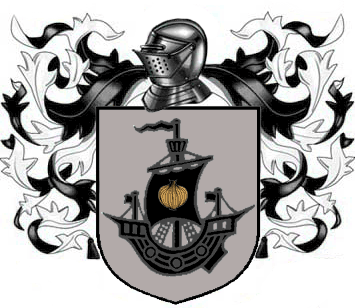 Coat of arms of house Seaworth in A Song of Ice and Fire by George R. R. Martin